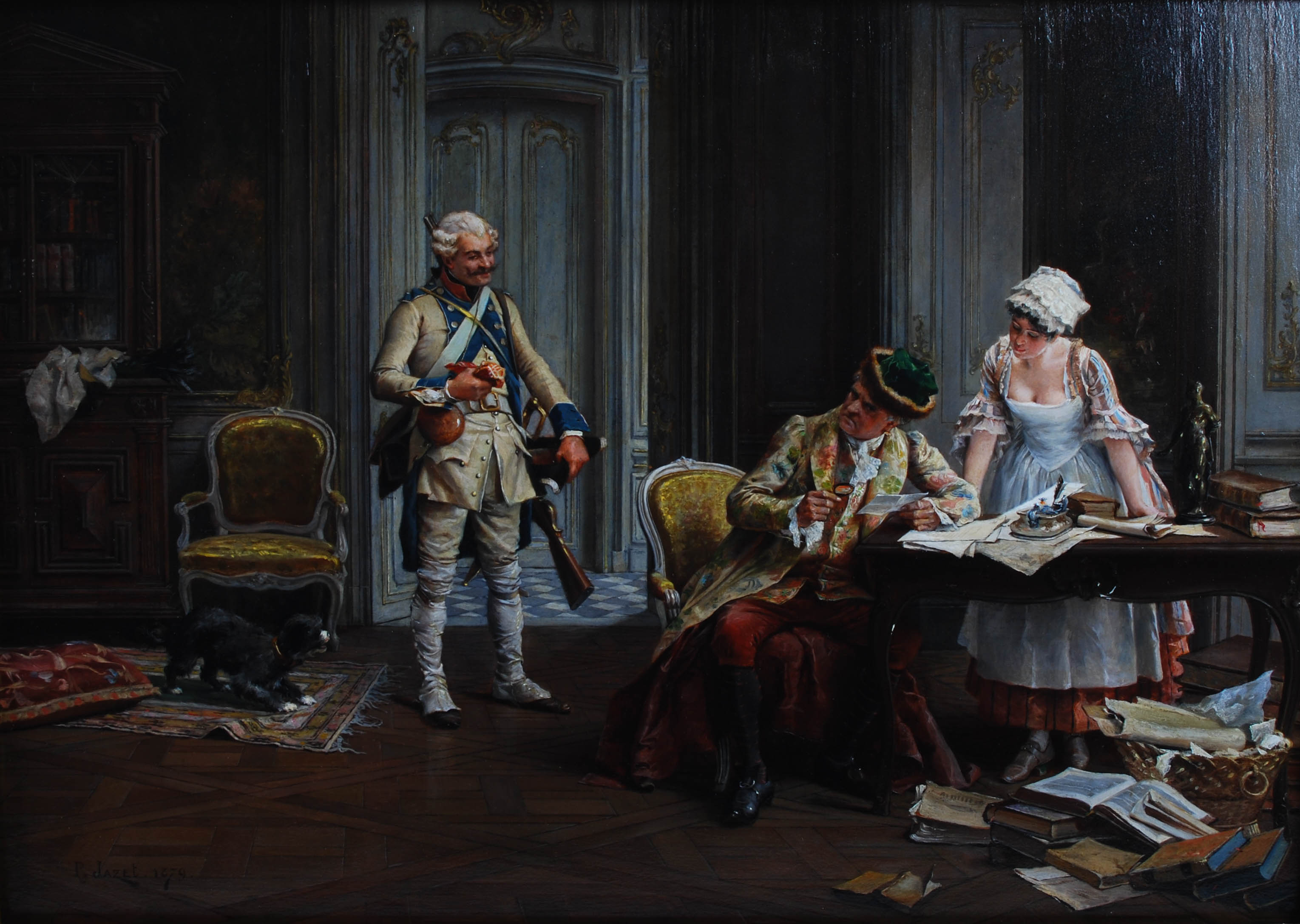 Le Billet de Logement, a painting by Paul-Léon Jazet that was exhibited at the Paris Salon in 1879. A billet de logement was a letter issued by the town mayor which required residents to house visiting soldiers, and sometimes their horses. It could also force them to feed and maintain them. It allowed soldiers to be housed temporarily if the town did not have barracks to accommodate them. The painting has an element of humour as the tension in the perturbed recipient's face is exaggerated, while the female figure steals a glance of the letter with curious interest.